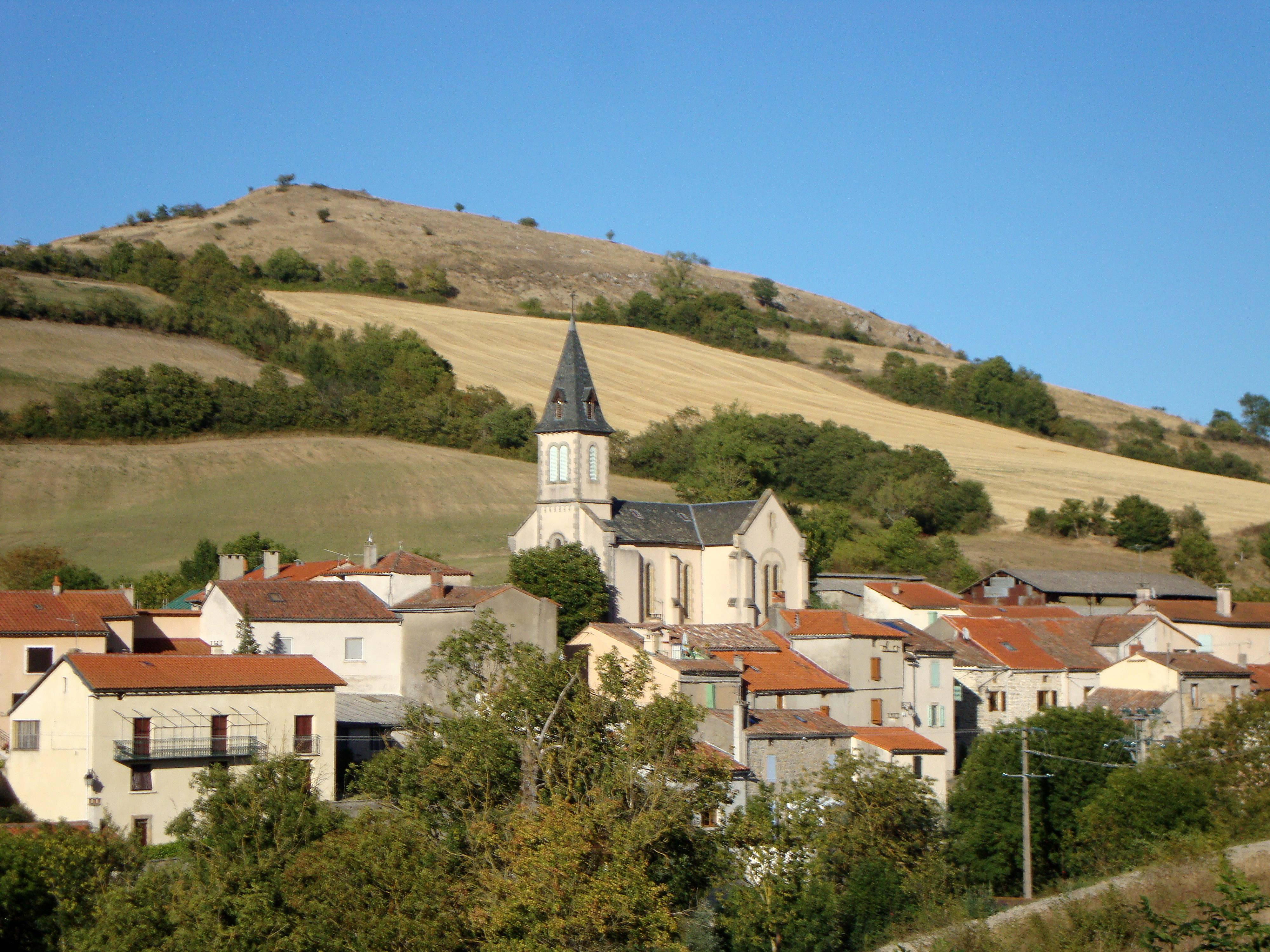 Overview of Saint-Jean-d'Alcapiès